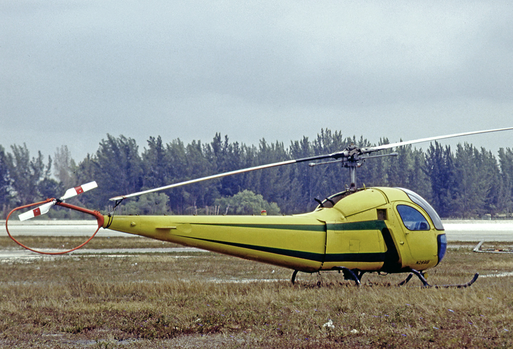 Bell 47H-1 three-seat helicopter of Adventure Helicopters at Miami Opa Locka Airport in 1981